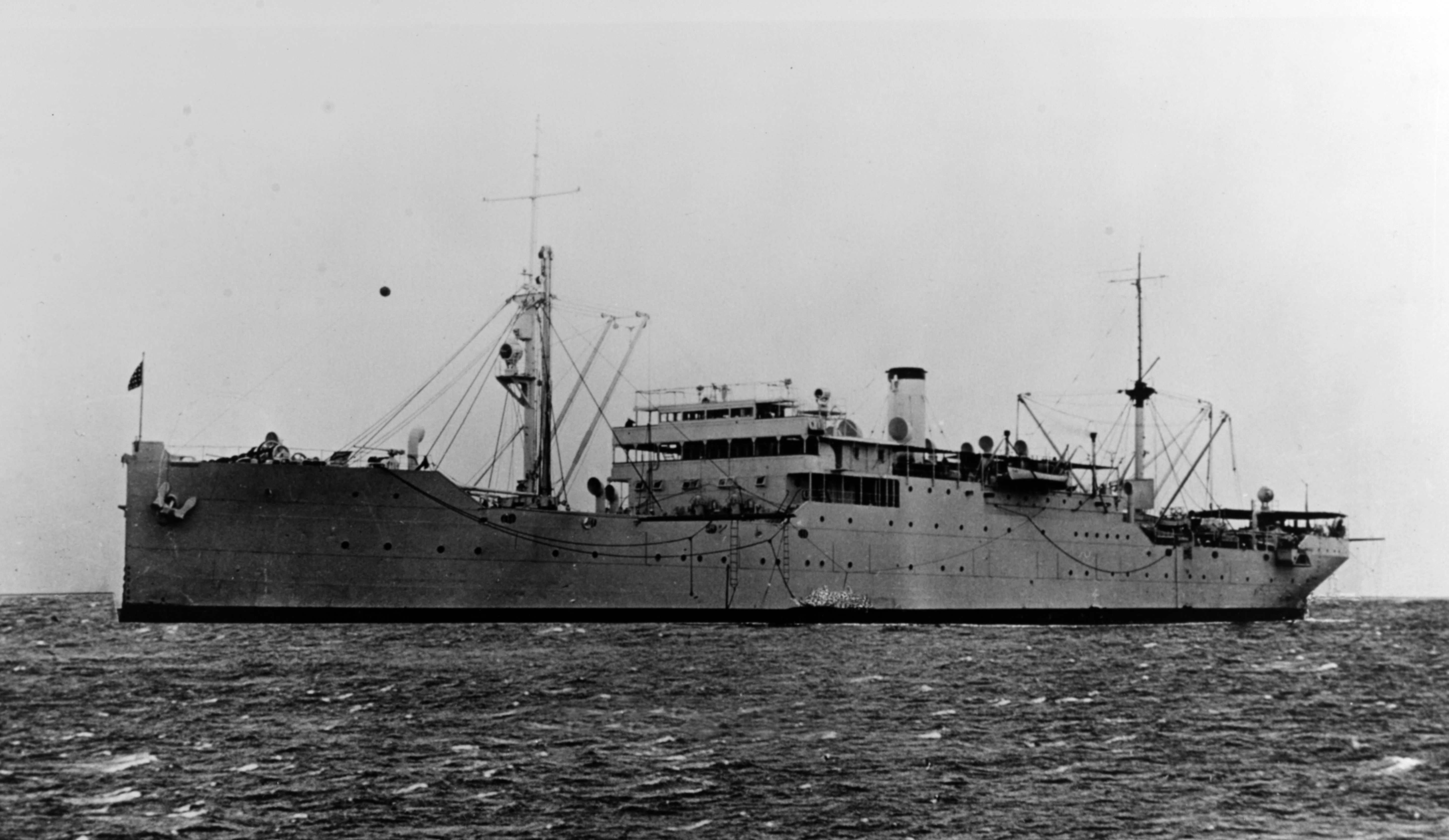 The U.S. Navy general stores issue ship USS Antares (AKS-3), circa in 1941.